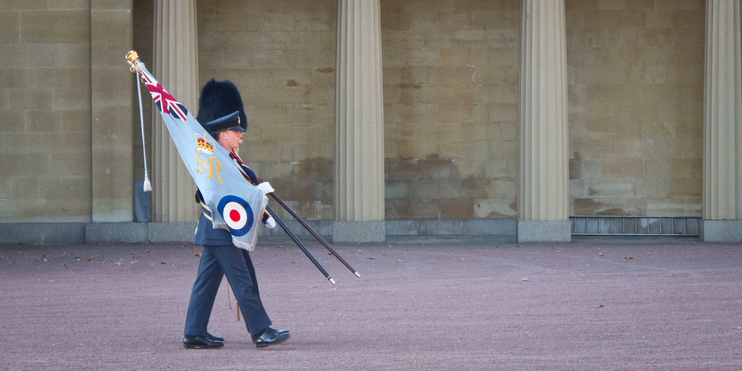 Changing of the guard in Buckingham Palace, London, England.